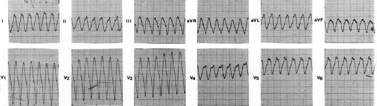 Spontaneous sustained ventricular tachycardia originating from the right ventricular posterior wall, showing left bundle branch block configuration and superior axis.